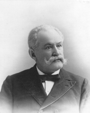 Portrait of Senator John Martin of Kansas